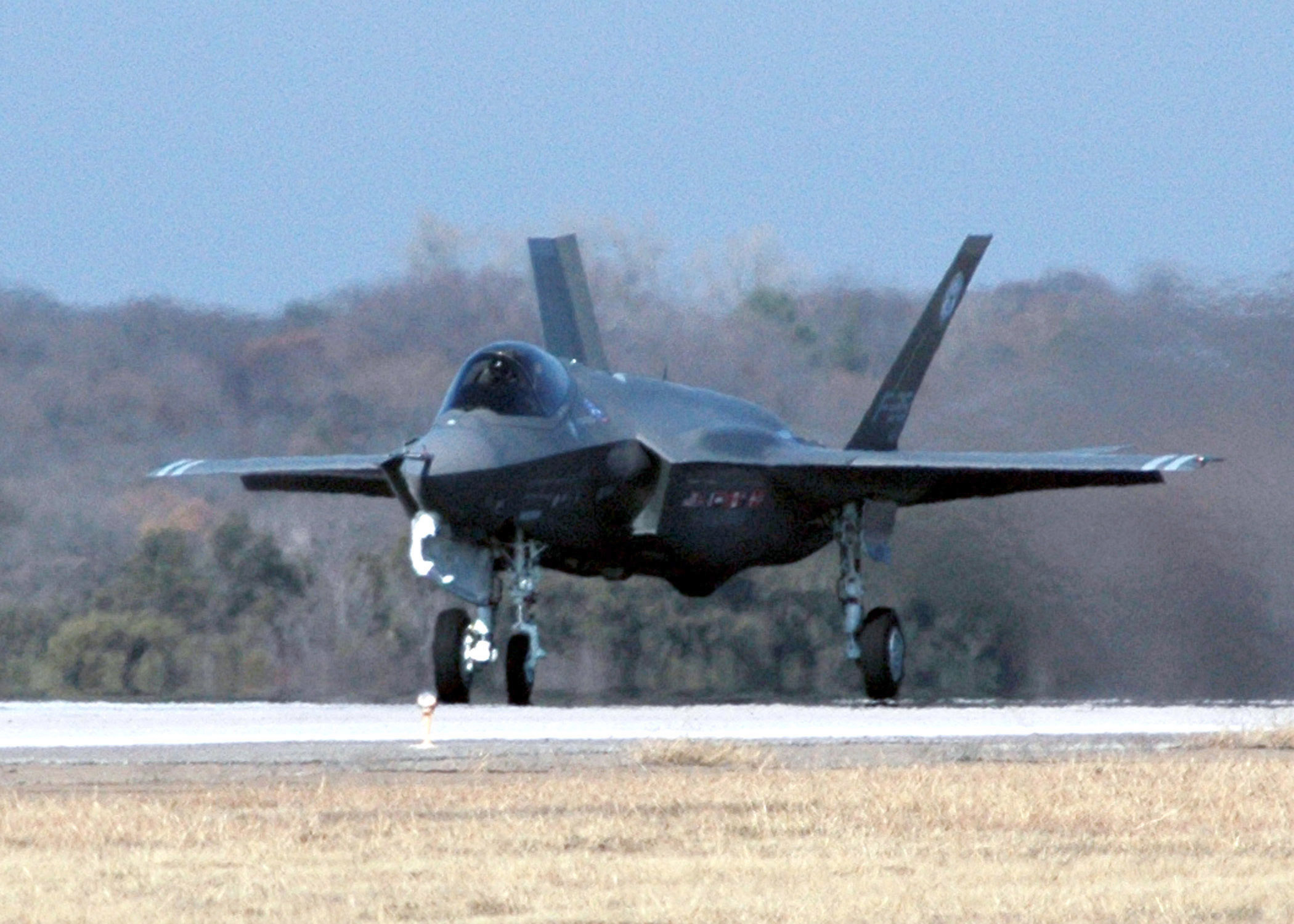 The F-35 Joint Strike Fighter Lightning II, built by Lockheed Martin takes off for its first flight to test the aircraft's initial capability at Joint Reserve Base Fort Worth.